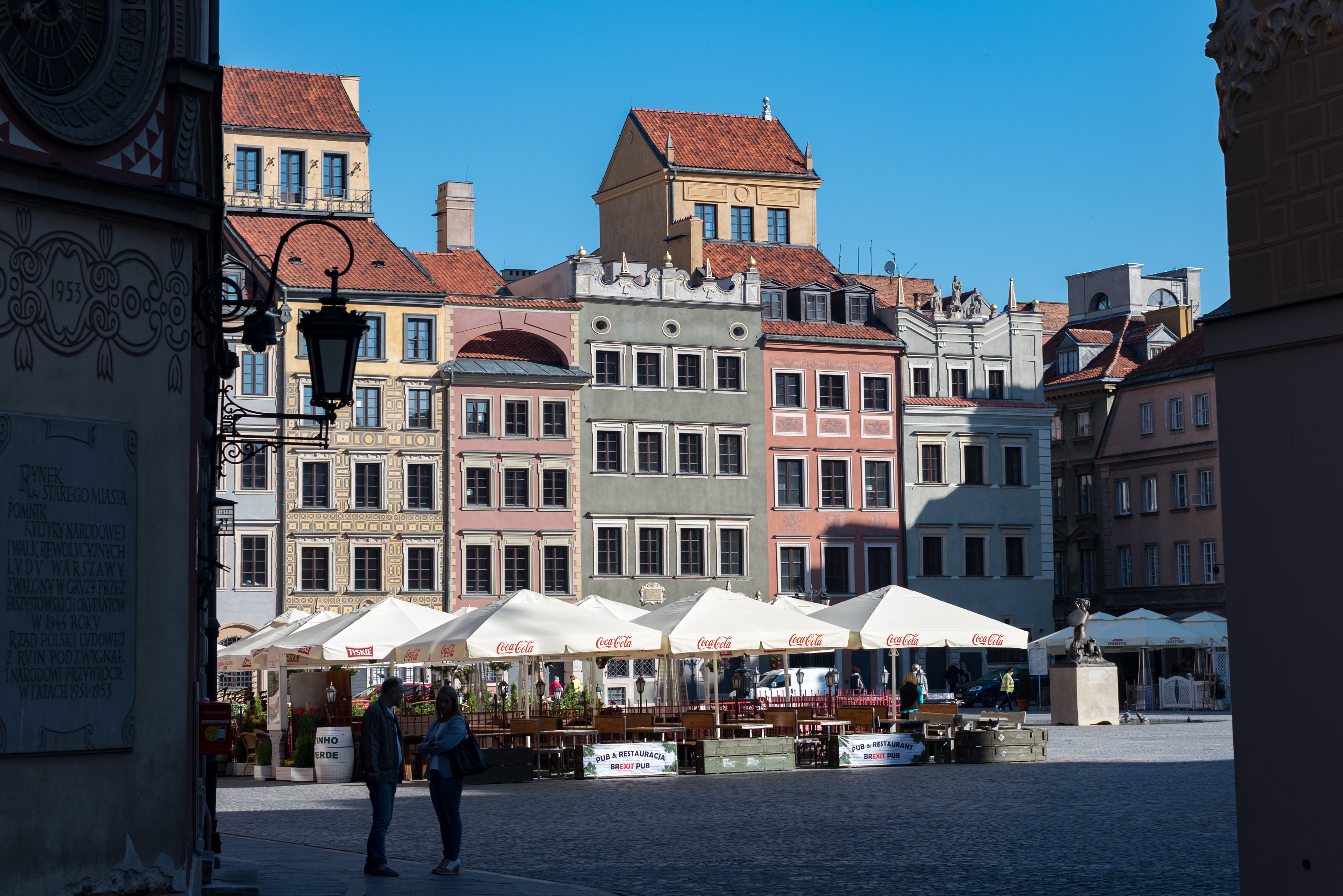 Warszawa, Rynek Starego Miasta 36-28